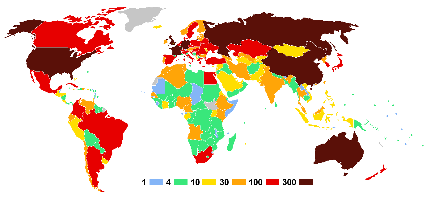 Number of Athletes by country in the 2012 Summer Olympics.